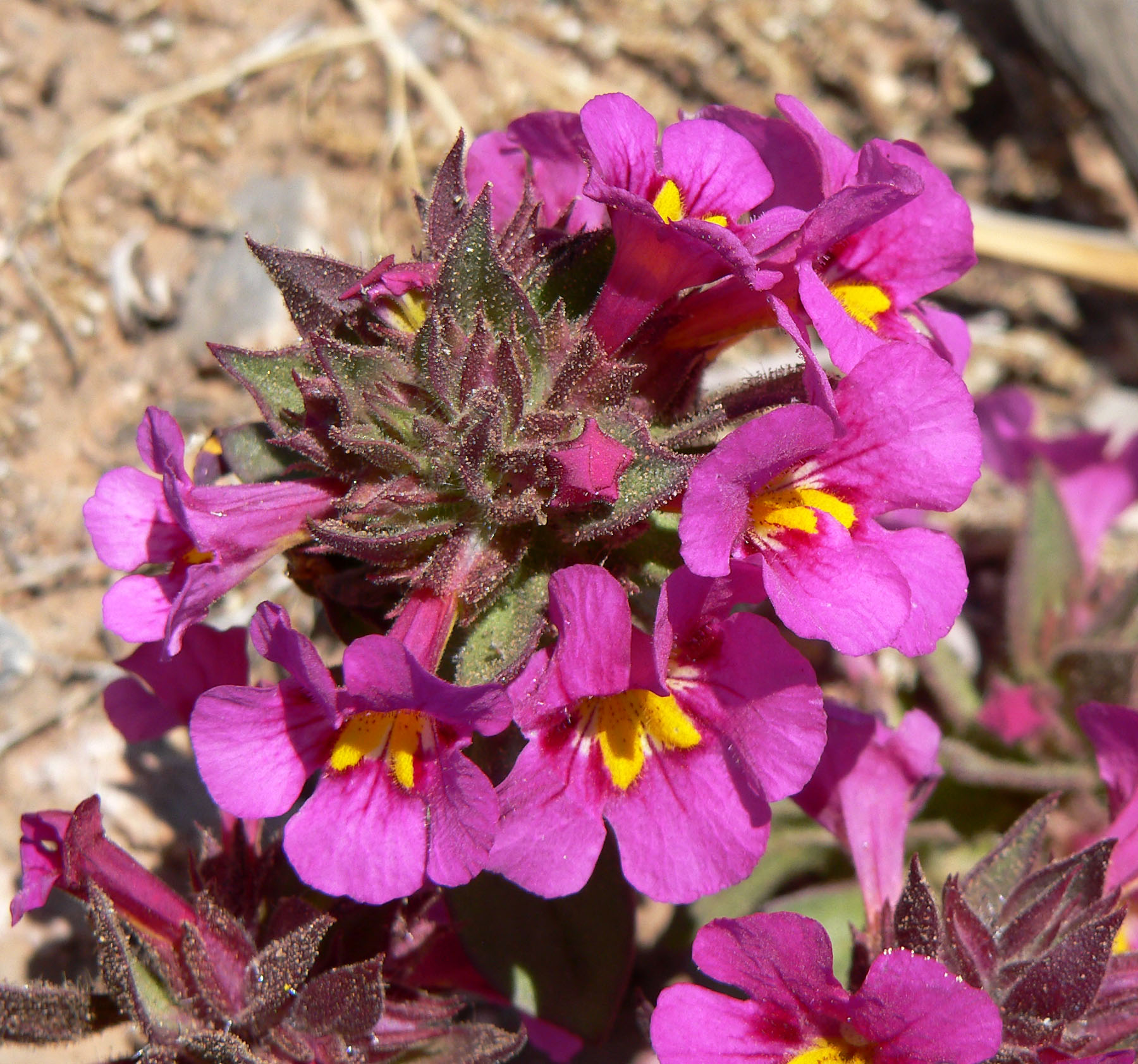 Mimulus bigelovii In the burned area alongside the scenic loop about 1.5km south of the Pine Creek trailhead, Red Rock Canyon, Spring Mountains, southern Nevada (elev. about 1200 m).